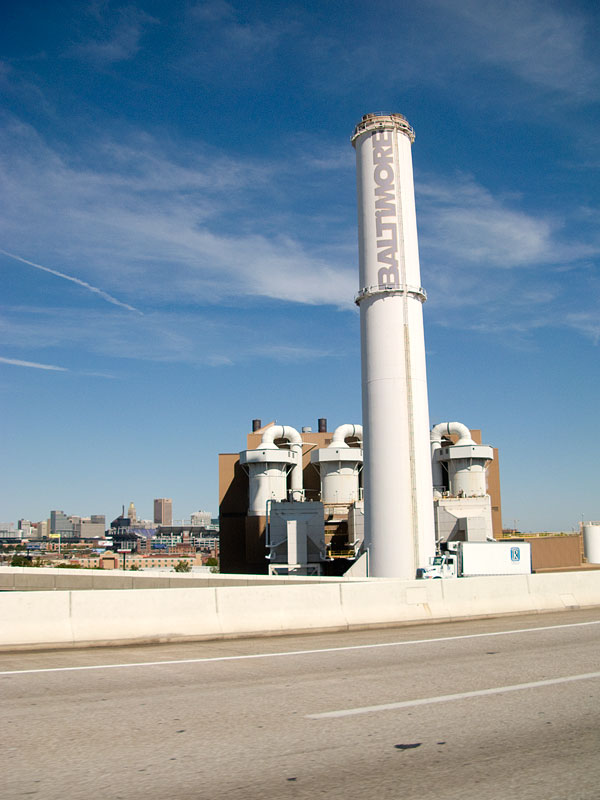 View of the Wheelabrator Baltimore waste-to-energy incinerator facility, Baltimore, Maryland. The smokestack that says "BALTIMORE" is considered a landmark for those traveling on nearby Interstate 95.